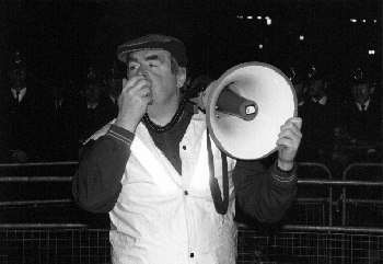 Mike Hicks on the picket line at Wapping in 1986.